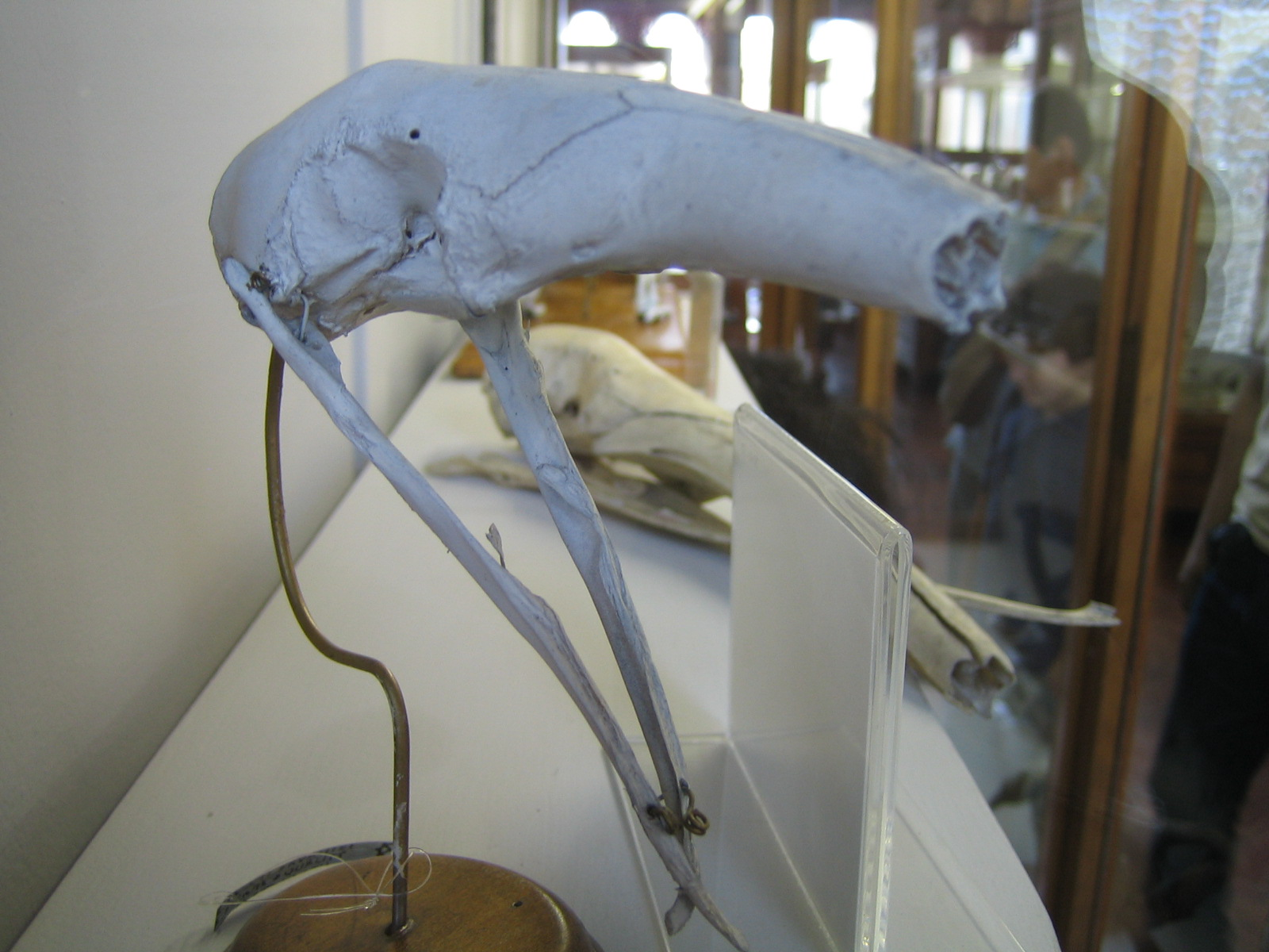 Tamandua tetradactyla skull of "Museu de Zoologia" of Barcelona